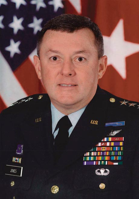 Lieutenant General Anthony R. Jones, Deputy Commander, U.S. Training and Doctrine Command